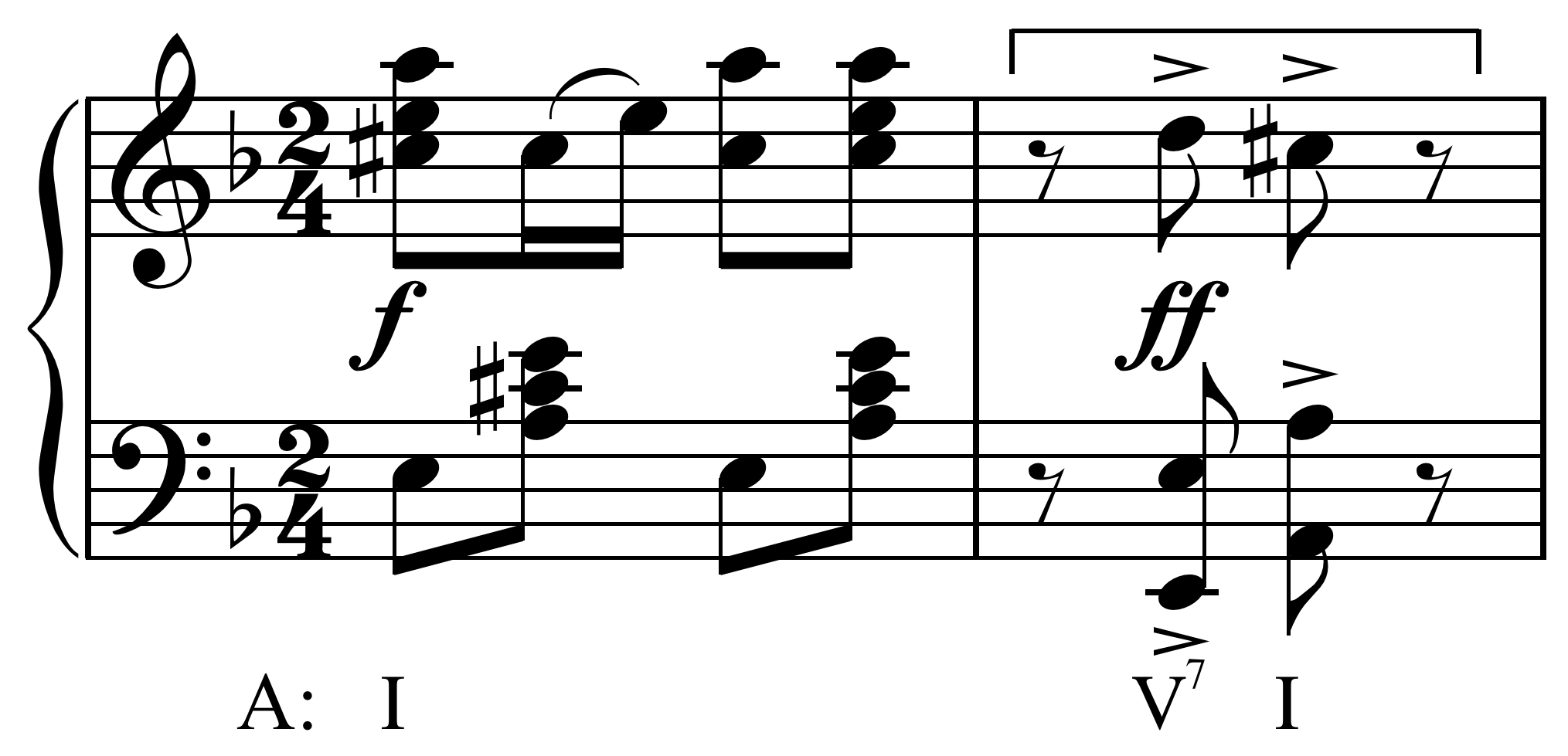 Stop-time in Dan Emmett's "Aunt Dinah's Wedding Dance" (1895) second break down strain